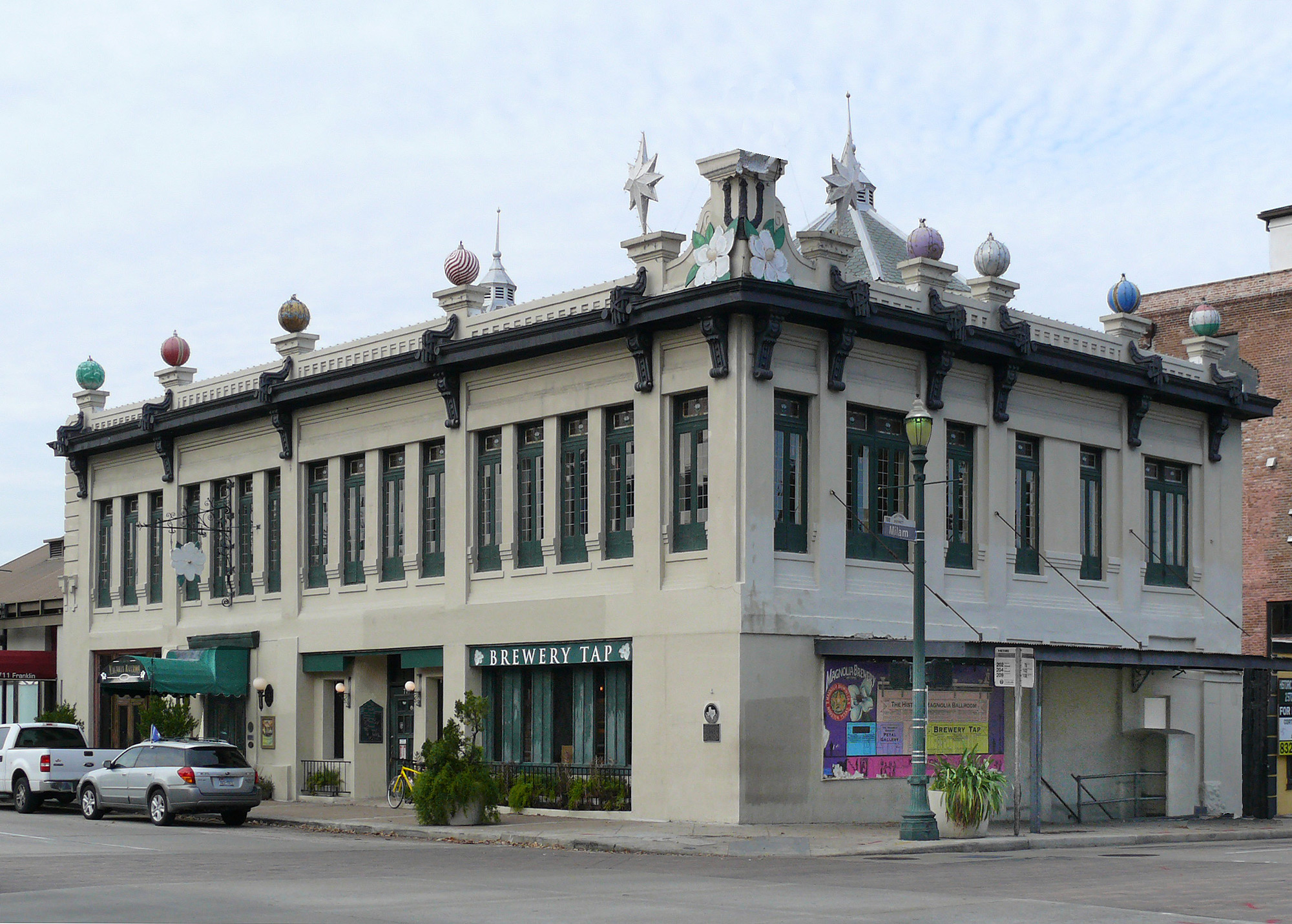 Magnolia Brewery was part of the Houston Ice and Brewing Company, founded in the late 19th century by Hugh Hamilton. Some of the brewery's popular brands included Magnolia, Southern Select and Richelieu beers. This building, designed by H.C. Cooke and Co. in 1912, was part of a much larger complex of structures along Buffalo Bayou. The building's details include pronounced cornice, upswept corner corbelled parapet and stained-glass transoms with a magnolia design. The company closed in 1950, but the building remains a link to the area's industrial history.